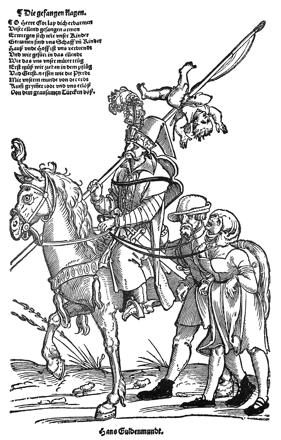 Erhard Schön. Turk with captives